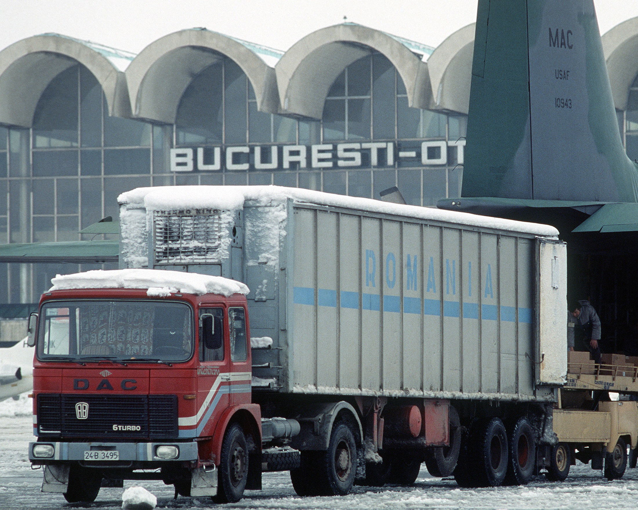 Medical supplies are unloaded from a US C-transport aircraft at the Bucharest airport. Provided by the 7th Medical Command, the supplies are part of relief effort for Romanian citizens of the revolt-torn country.